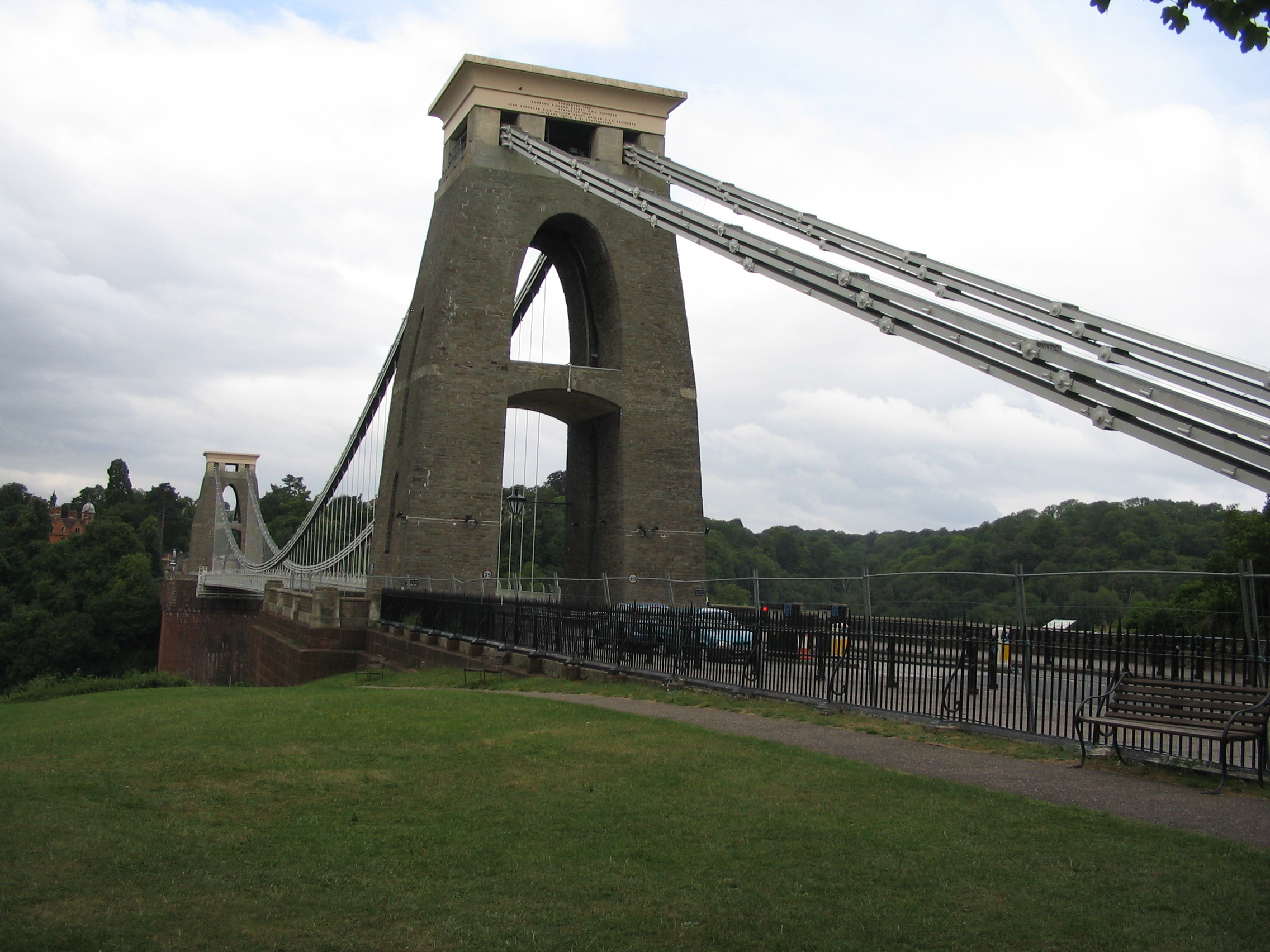 Clifton Suspension Bridge te Bristol - augustus 2006 - eigen foto